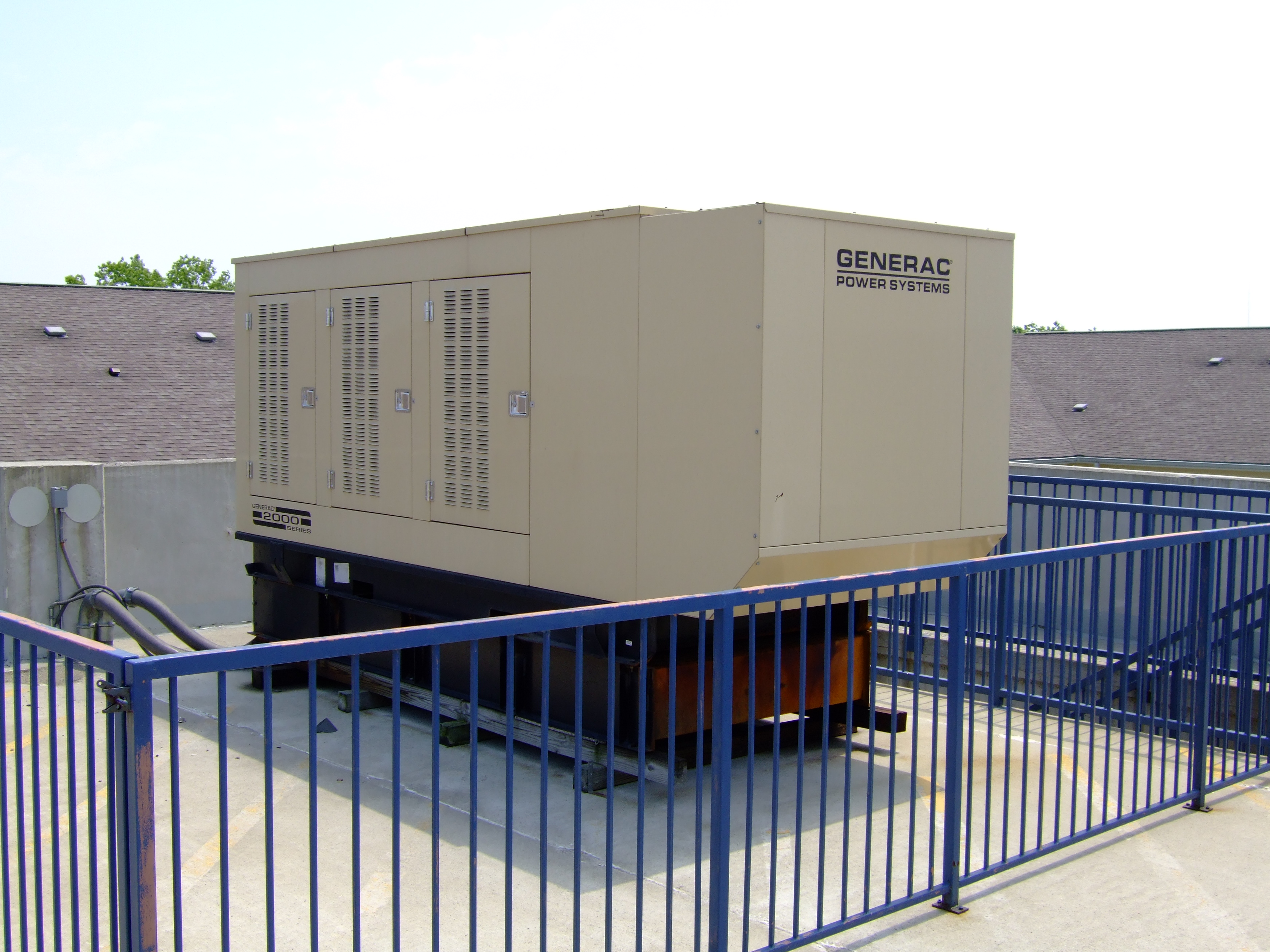 A backup generator for a large apartment building in Columbus, Ohio, USA. Self made photo.